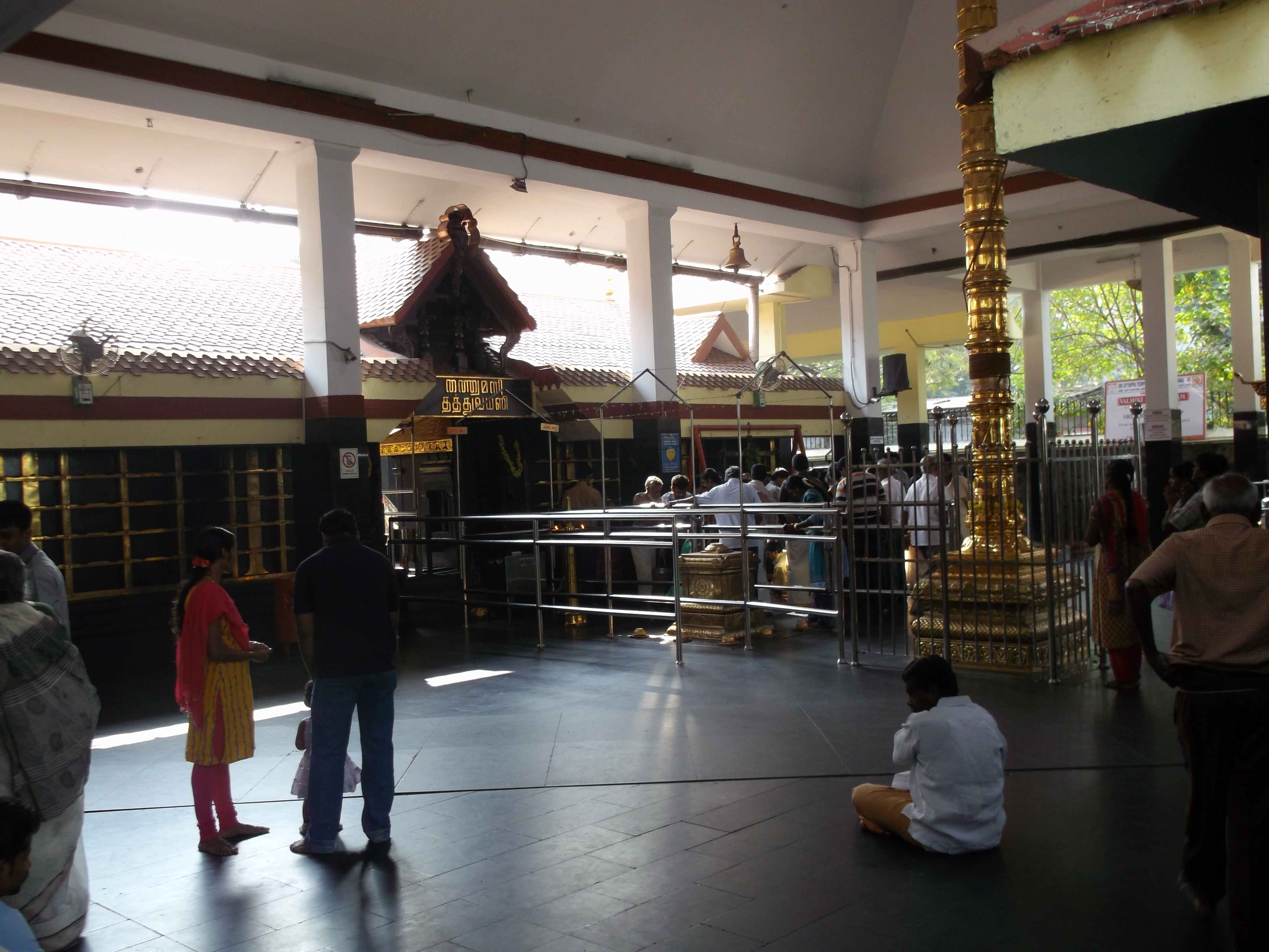 Prakaaram (Corridor) of the Anna Nagar Ayyappan Koil, taken on 22 February 2015 at around 9:30 am.